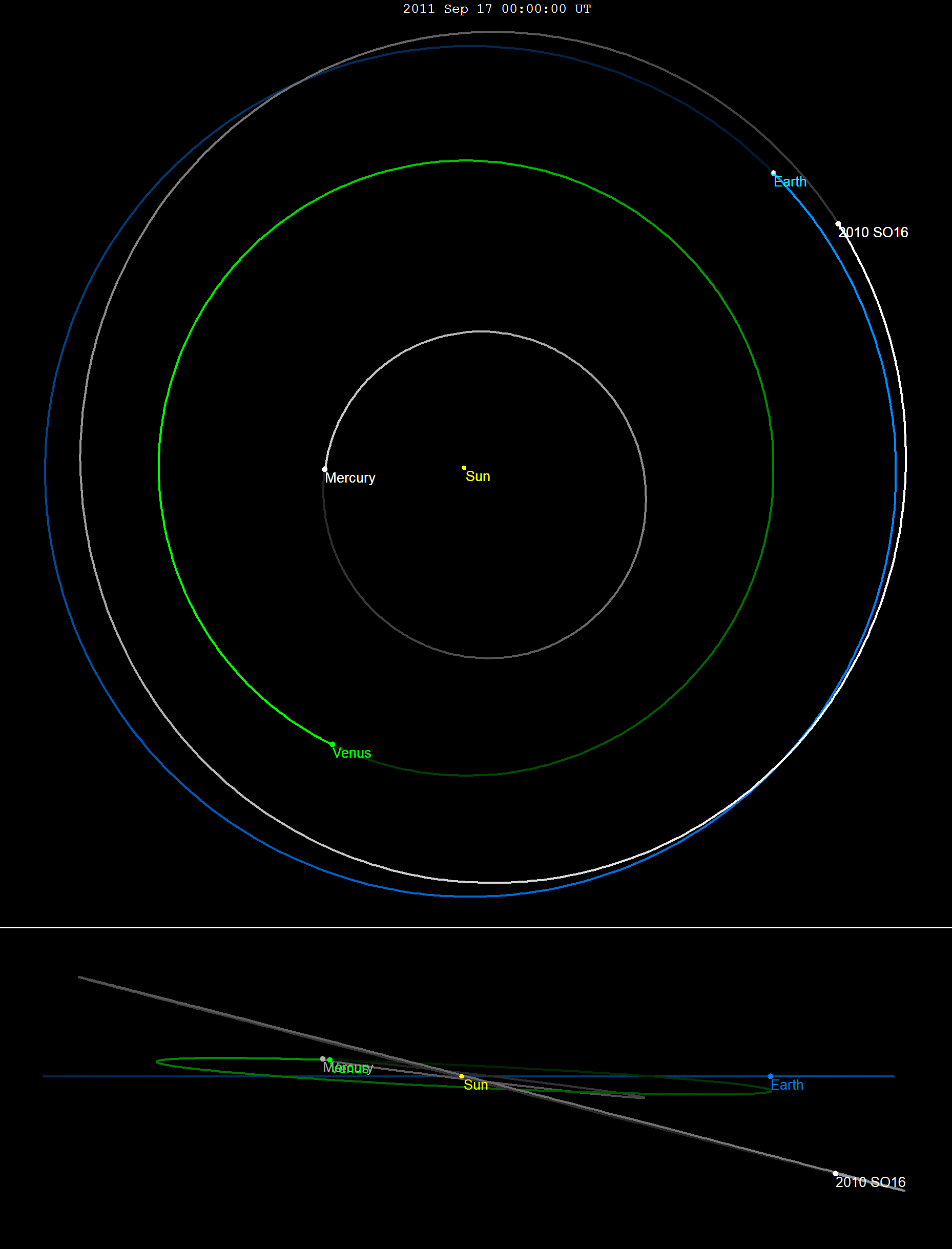 (419624) 2010 SO16 orbits